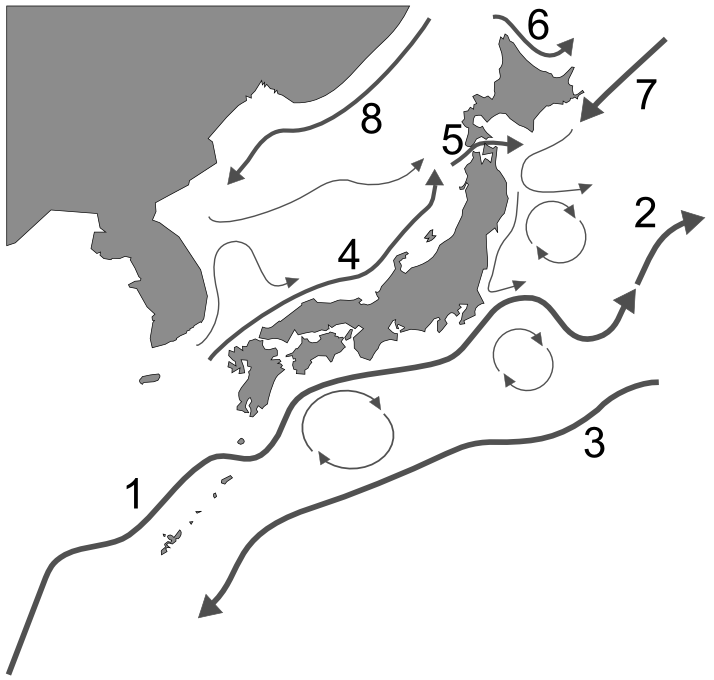 Ocean currents which surround Japan islands (1. Kuroshio 2.Kuroshio-Zokuryu 3.Kuroshio-Hanryu 4.Tsushima-Danryu 5.Tsugaru-Danryu 6.Sohya-Danryu 7.Oyashio 8.Liman-Kanryu)